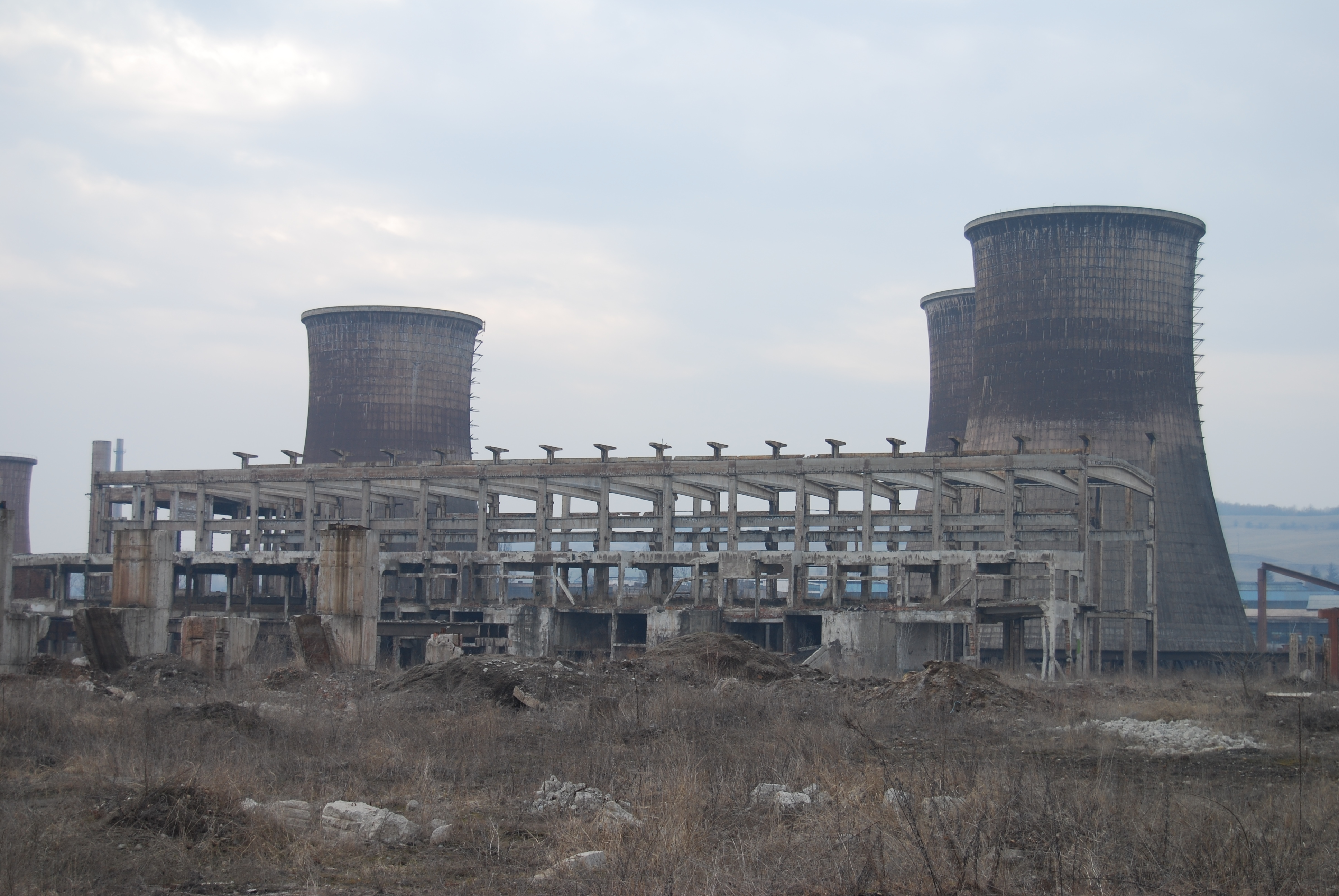 Călan Steel Plant, Hunedoara County, Romania.